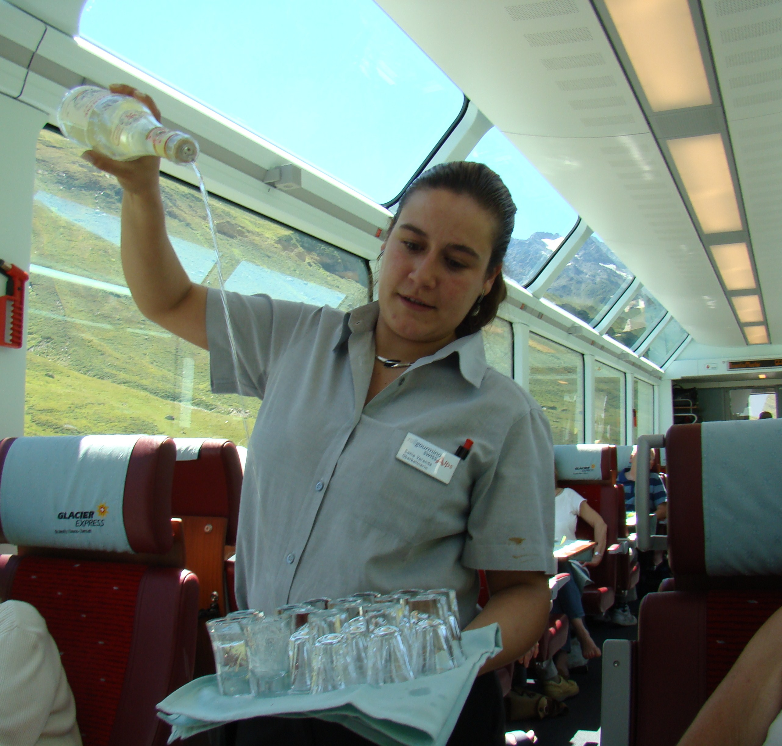 Grappa on the Glacier Express